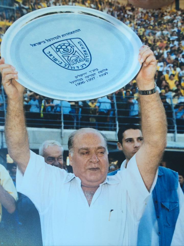 Moshe Dadash